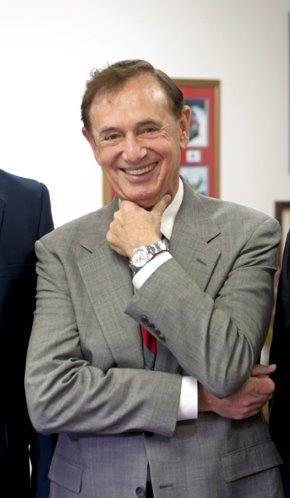 Tom Frederickson Forrest Lucas Bob Patison